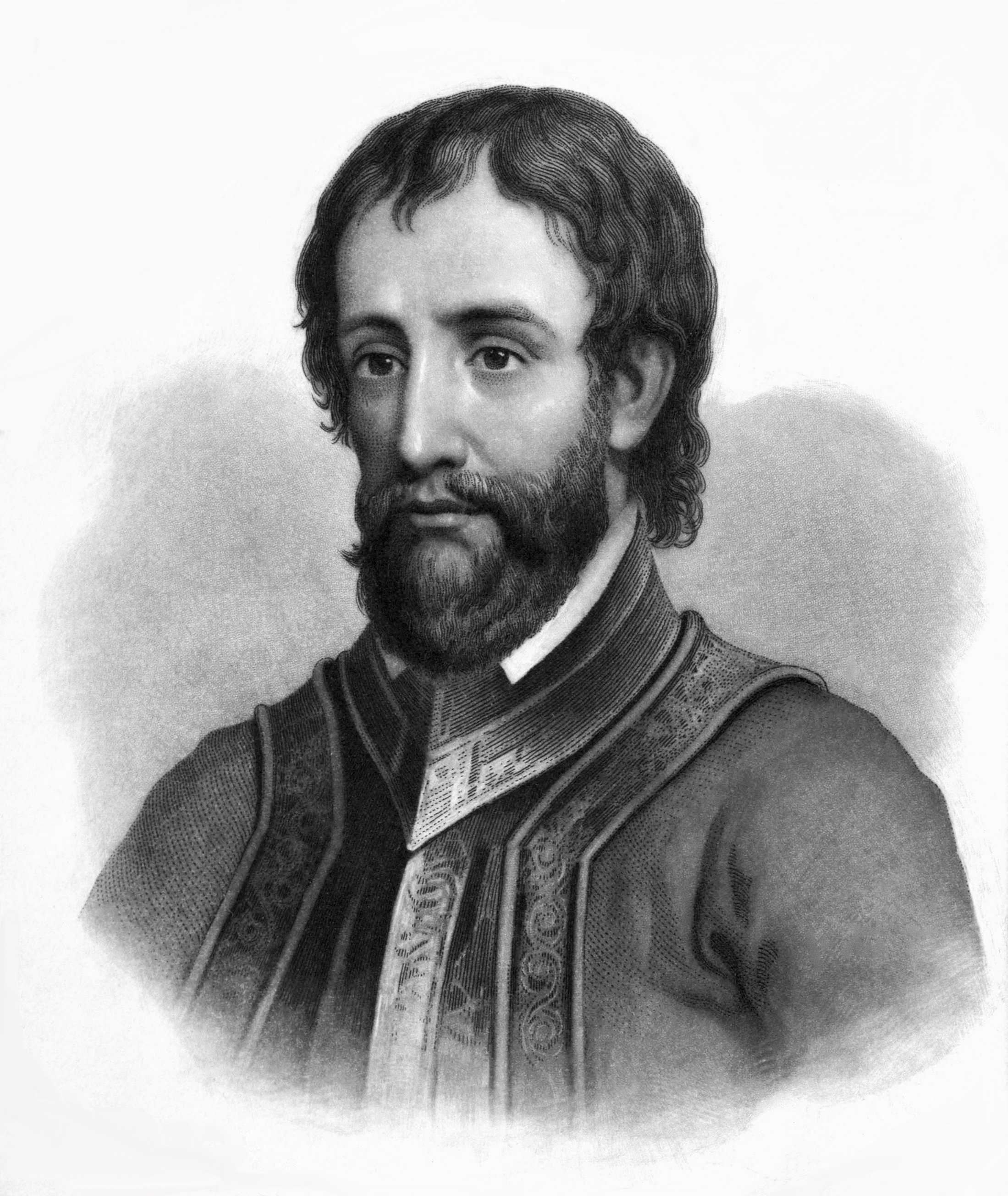 Engraving of Hernando De Soto